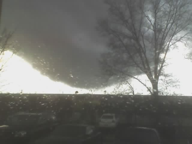 Wall cloud from the February 2008 tornado outbreak in the Southern United States. This picture was taken from Cordova, Tennessee looking directly south at 5:15pm on February 5, 2008.